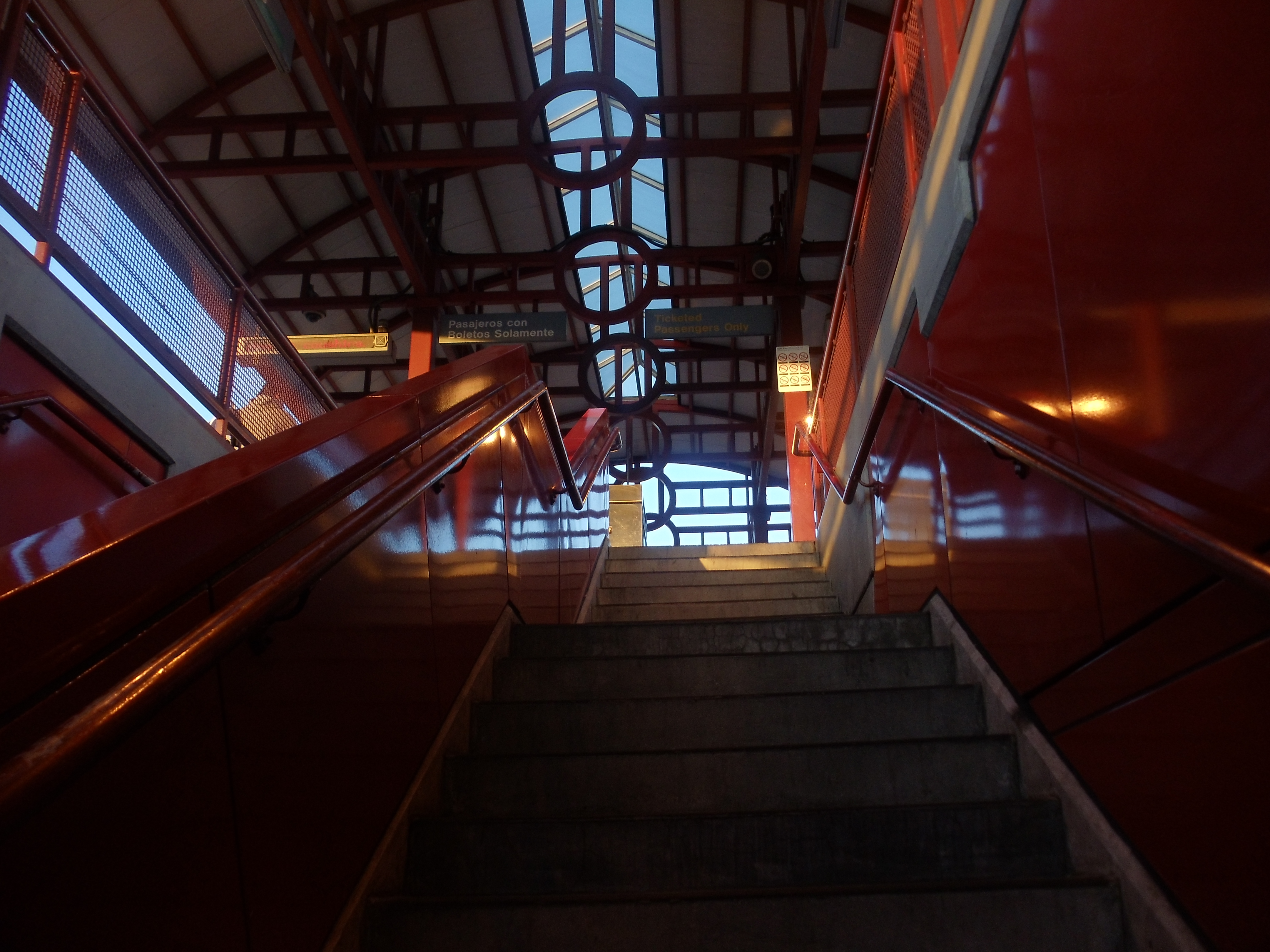 Stairs to the Crenshaw Station.